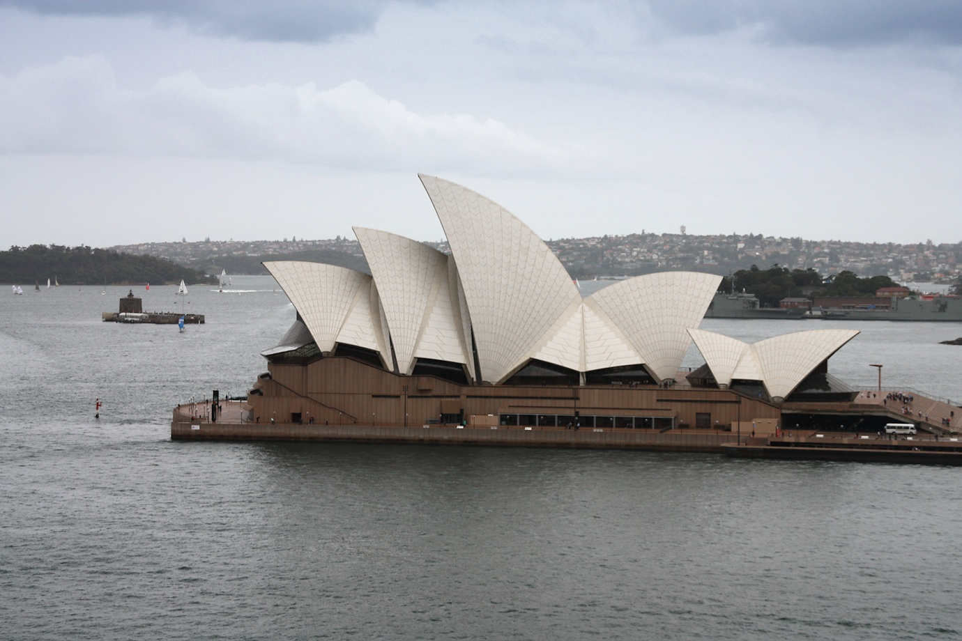 Sydney Opera House exterior view in Australia.